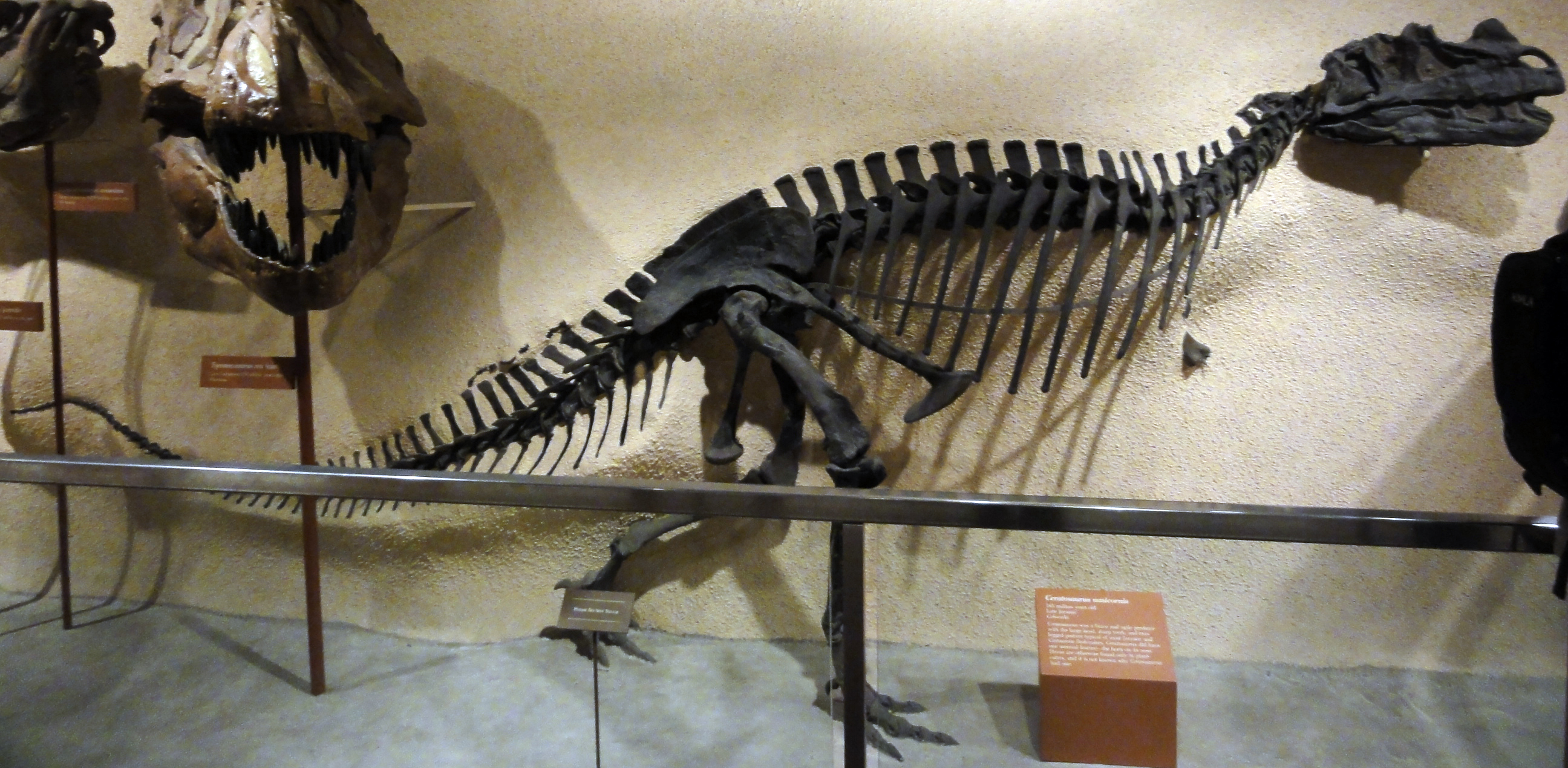 2010/11/24 Viewing in National Museum of Natural History.